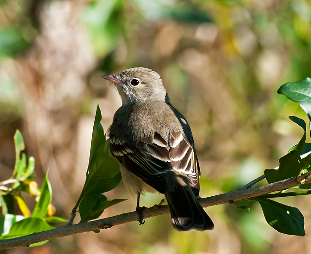 A Small-billed Elaenia in Piraju, São Paulo, Brazil.